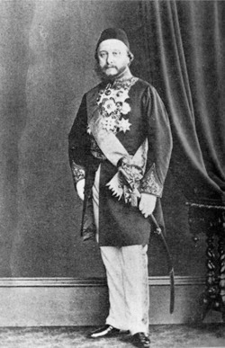 Konstantinos Mousouros also known as Kostaki Musurus Pasha in Turkish. Ottoman Greek statesman.